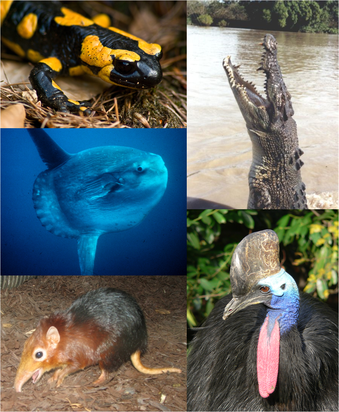 Clockwise, starting from top left: 1. Fire Salamander (Salamandra salamandra) 2. Saltwater Crocodile (Crocodylus porosus) 3. Southern Cassowary (Casusarius casuarius) 4. Black-and-rufus Giant Elephant Shrew (Rhynchocyon petersi) 5. Ocean Sunfish (Mola mola)